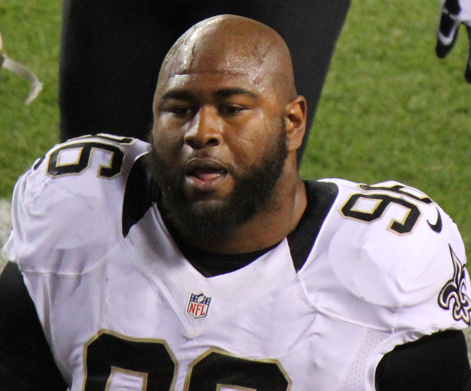 Tom Johnson, a player on the National Football League.